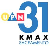 Former logo of KMAX-TV in Sacramento